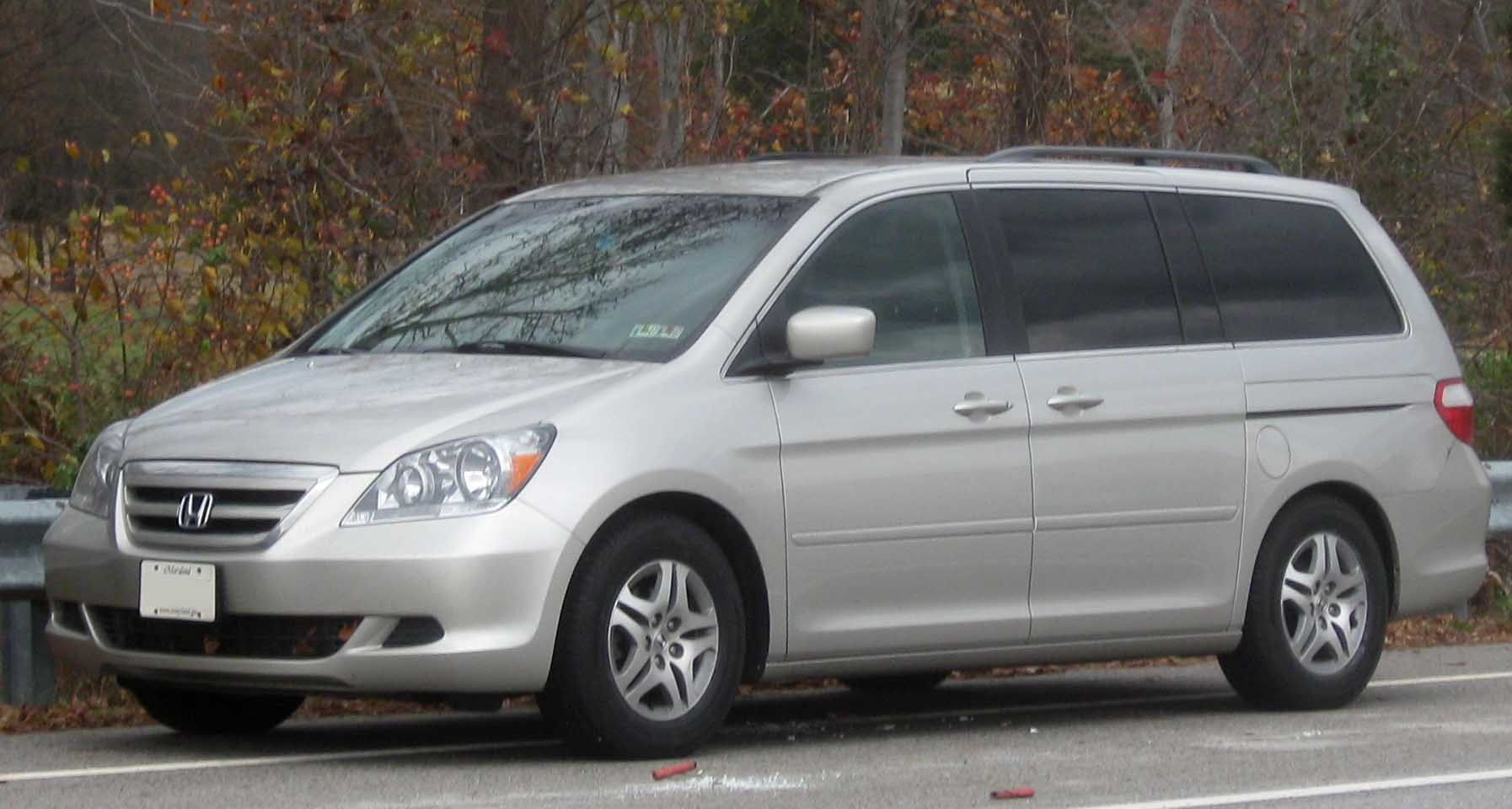 2005-2007 Honda Odyssey photographed in College Park, Maryland, USA.